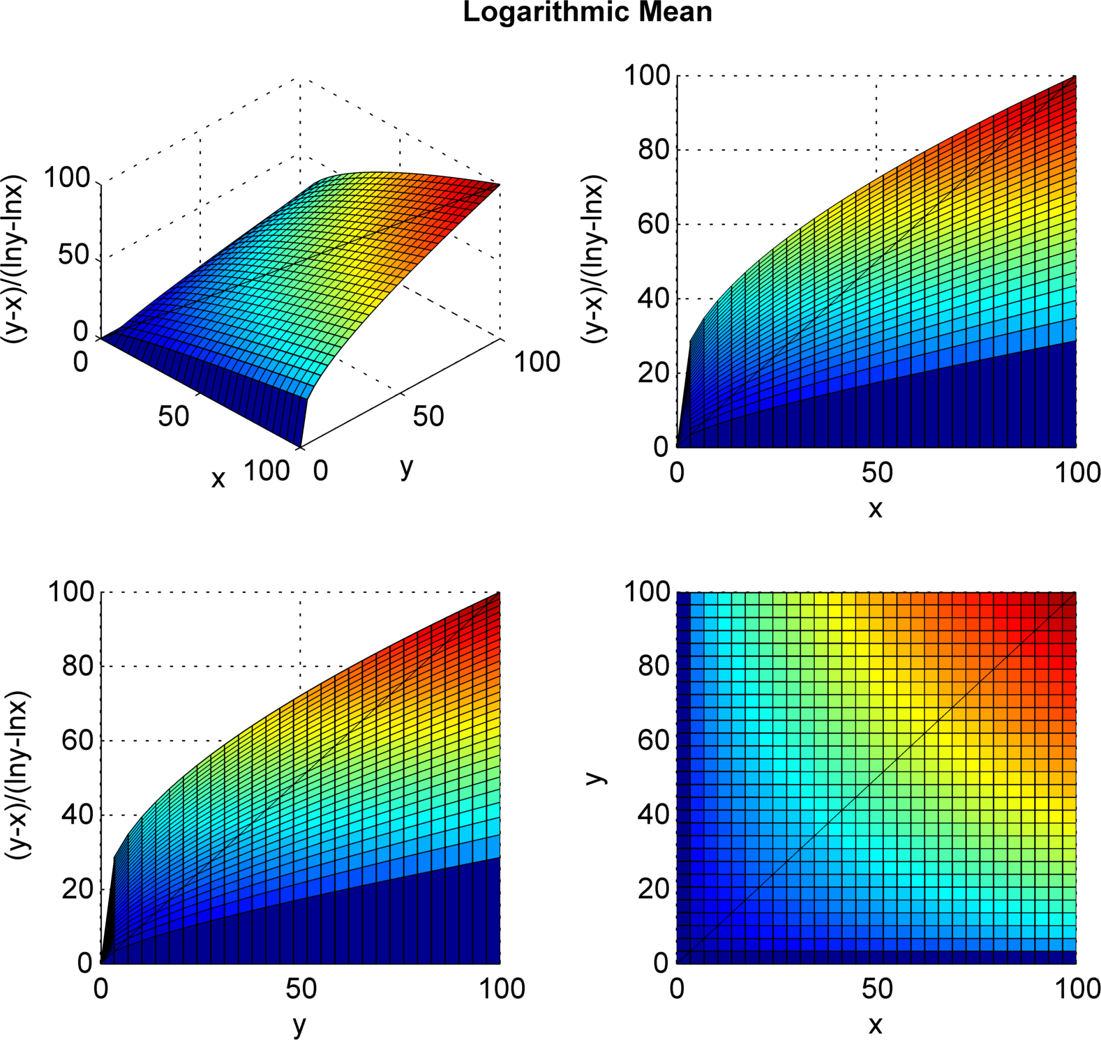 The picture shows the values of the logarithmic mean between x and y, as x and y go from zero to 100